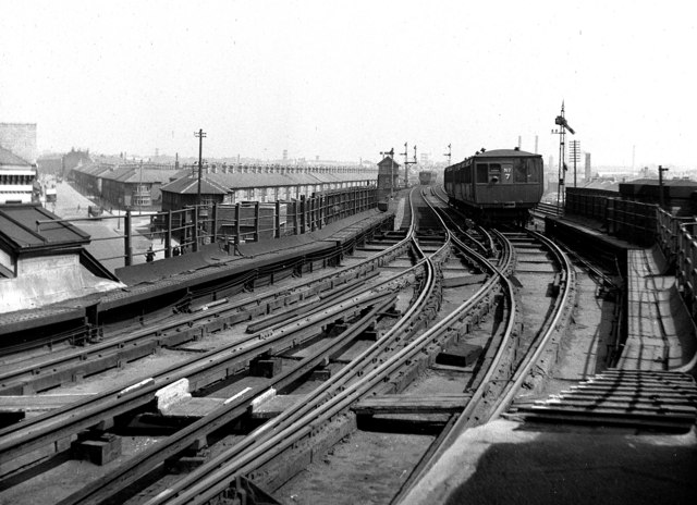 A southbound electric train of the Liverpool Overhead Railway approaches Seaforth Sands railway station in May 1951. This line eventually ran the whole length of the Liverpool Docks from Seaforth to Dingle.